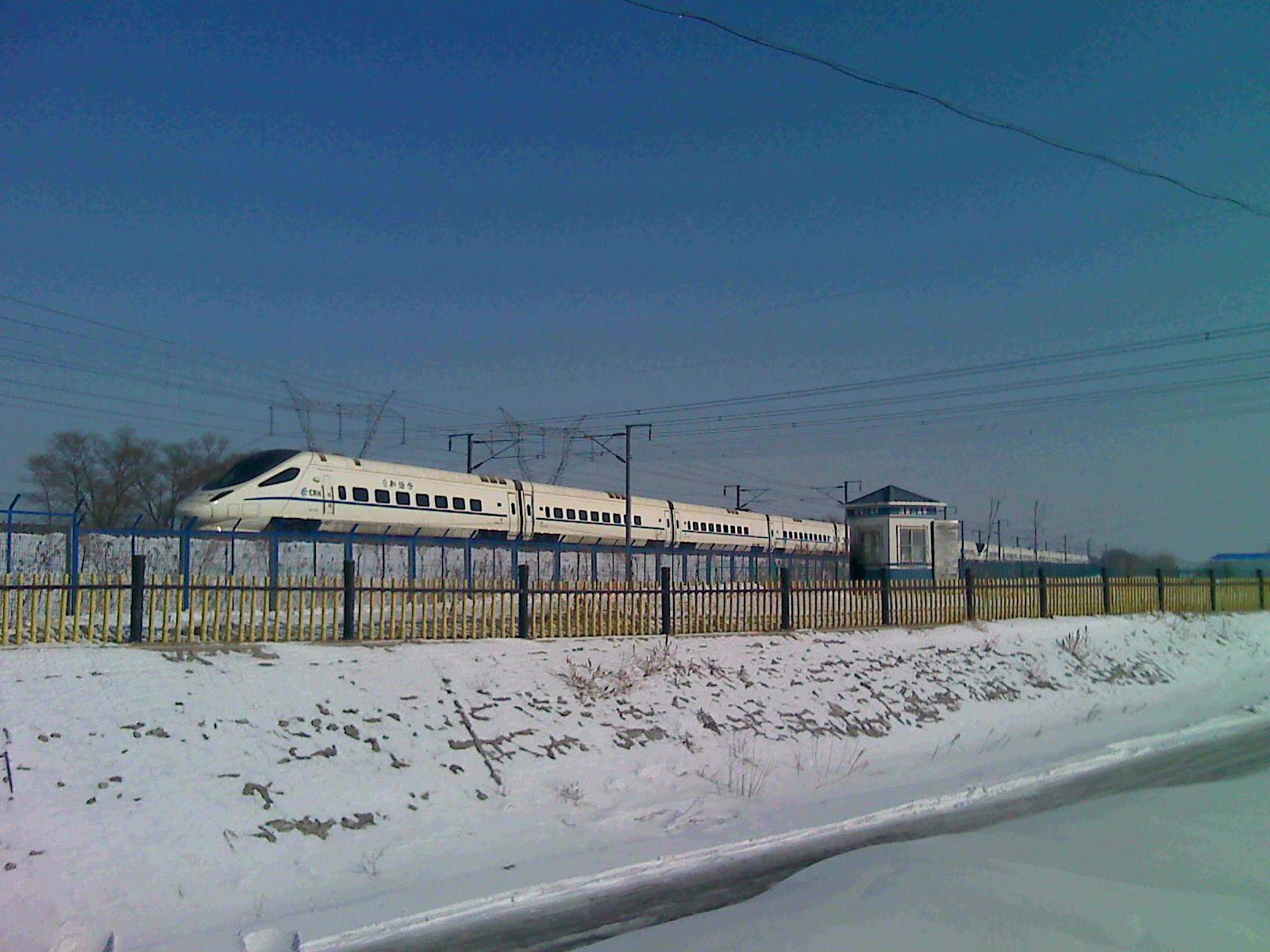 China Railways CRH5 EMU used in Changchun–Jilin Intercity Railway.